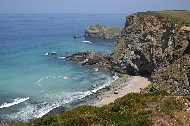 Bassett's Cove. Looking northeast along the coast with Samphire Island beyond the headland.